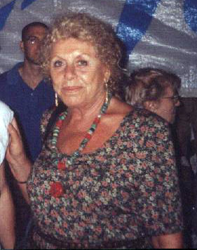 Shula Aloni at a weekly Saturday night Peace Now demonstration by the Prime Minister's residence.